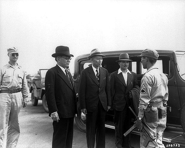 Dr. Jose P. Laurel, president of "the puppet government" of the Philippines Benigno Aquino, Speaker of the House and Jose P. Laurel III, are being questioned by S/Sgt. Van Millori, " a Filipino in the U.S. Army," at Osaka airport prior to being taken into custody by U.S. troops, Osaka, Japan. To the far left is Lt. Col. Leon A. Michaelis, US CIC.